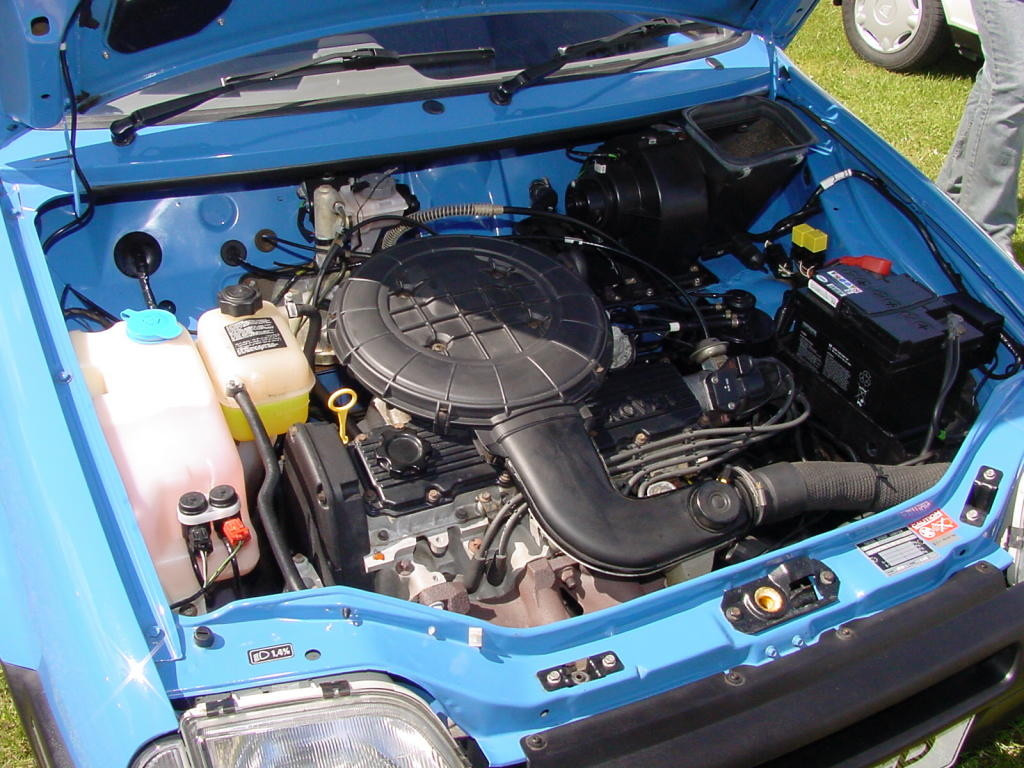 1993 blue Rover Metro Quest, engine bay with 1.1 carburator Rover K-series engine. Metro 30th Anniversary at Heritage Motor Centre, Gaydon, UK